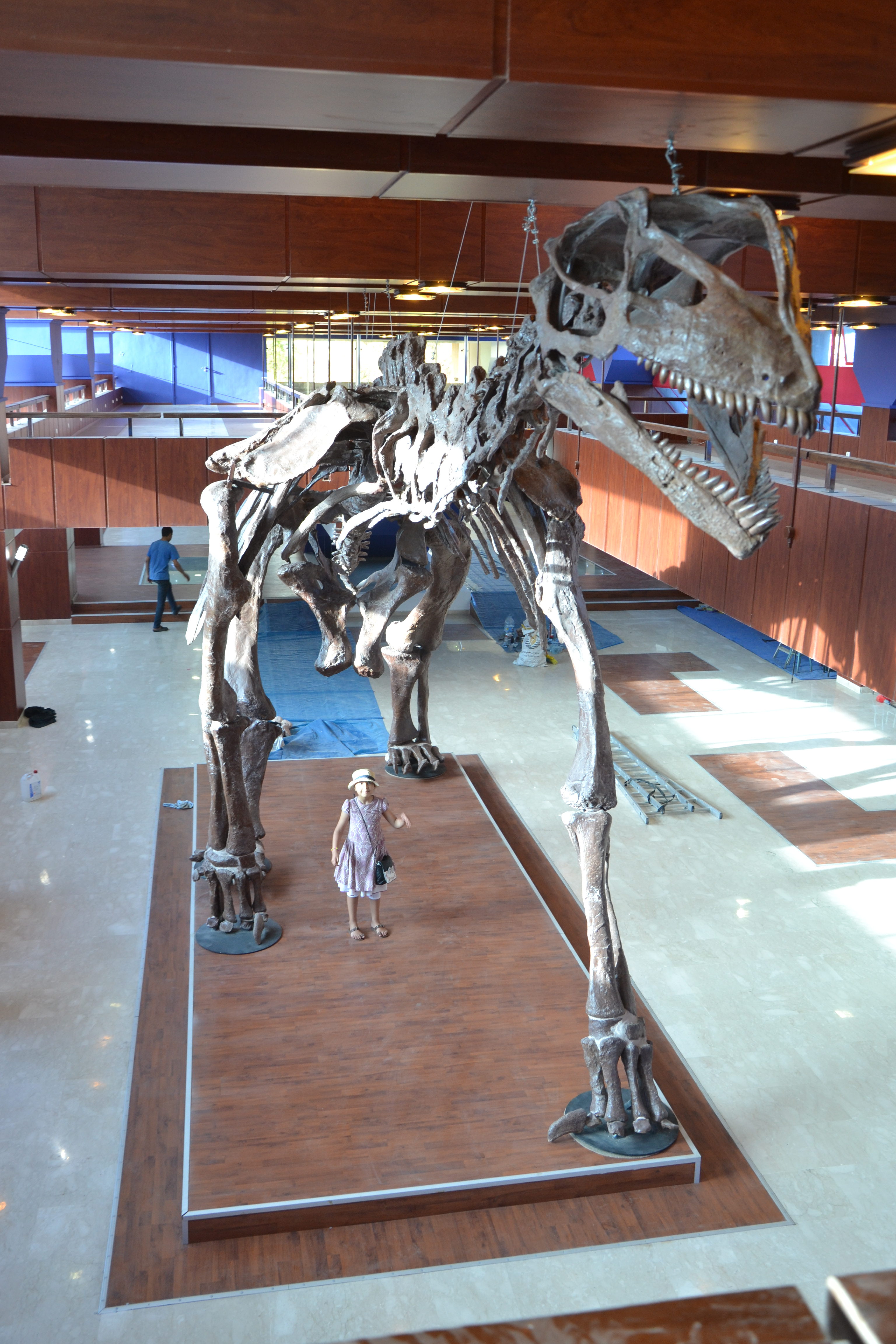 atlasurus skeleton in Rabat morocco